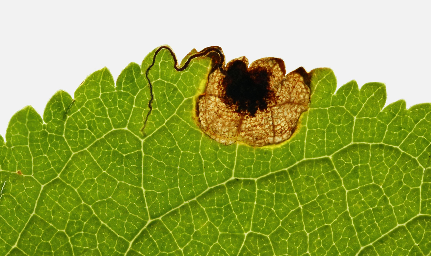 Stigmella plagicolella in Prunus spinosa, Blackthorn, Craig Tremeirchion, North Wales, Sept 2015